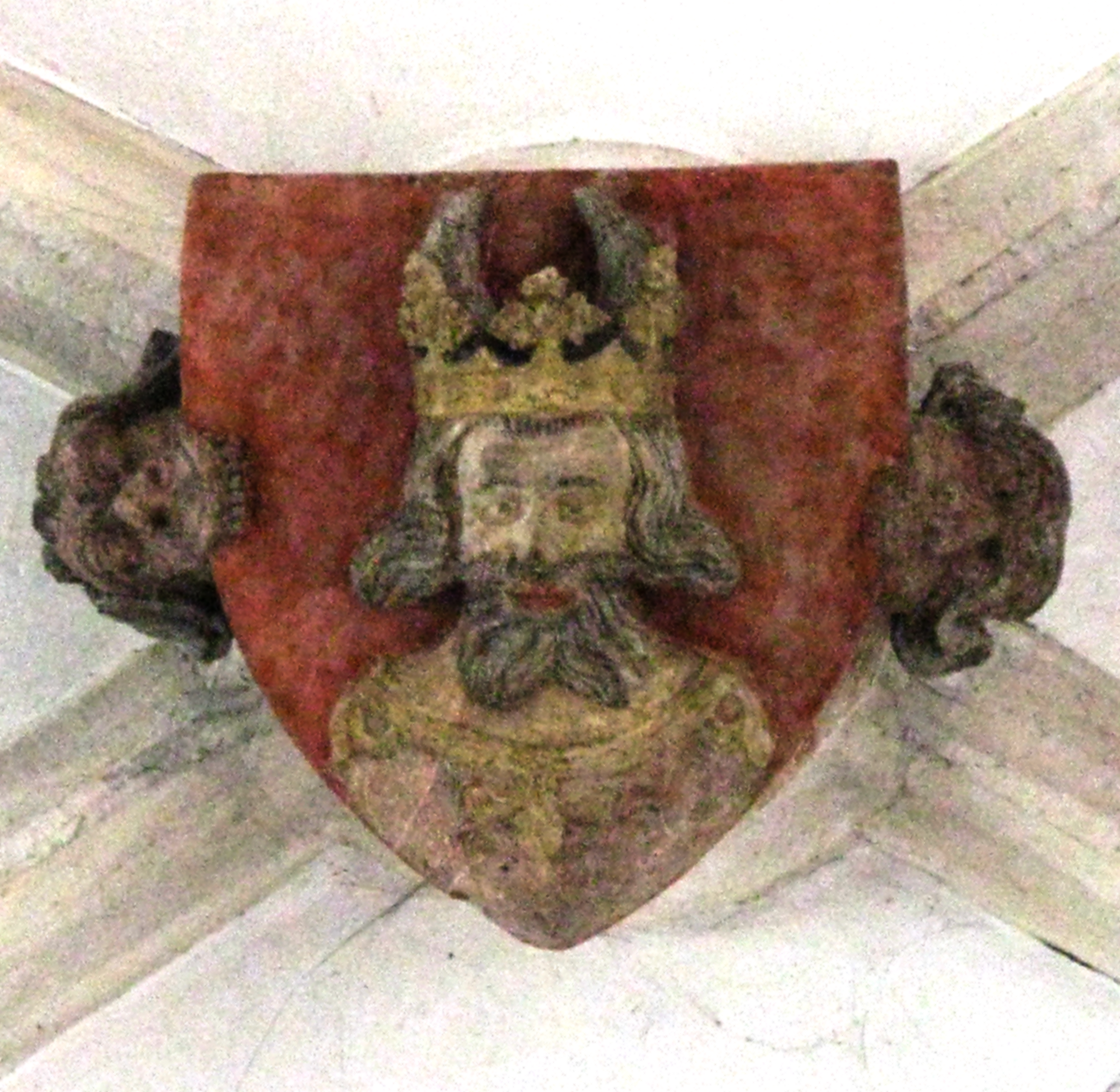 Coat of arms of Dobrzyń Land (hypothetical portrait of King Casimir the Great)